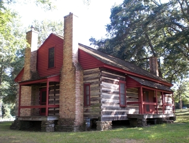 Peter Valentine Kolb's Farmhouse at Kennesaw Mountain National Battlefield Park, Georgia. The Kolb farmhouse is the only remaining park building that existed during the Battle of Kennesaw Mountain and is a rare example from an early period of Cobb County settlement. The farmstead has been compromised by the loss of its associated farm acreage, vegetation patterns, and outbuildings, as well as the widening of Powder Springs Road, the National Park Service, starting in 1963, has rehabilitated the exterior of the farmhouse to its 1830s appearance. When removing the more modern clapboard siding, they revealed the original hewn logs. The interior, although adapted to serve as park quarters, still reflects the original Georgian plan. Most of the original 1830s historic fabric was retained in the rehabilitations. Both the house and the cemetery remain in their original location.